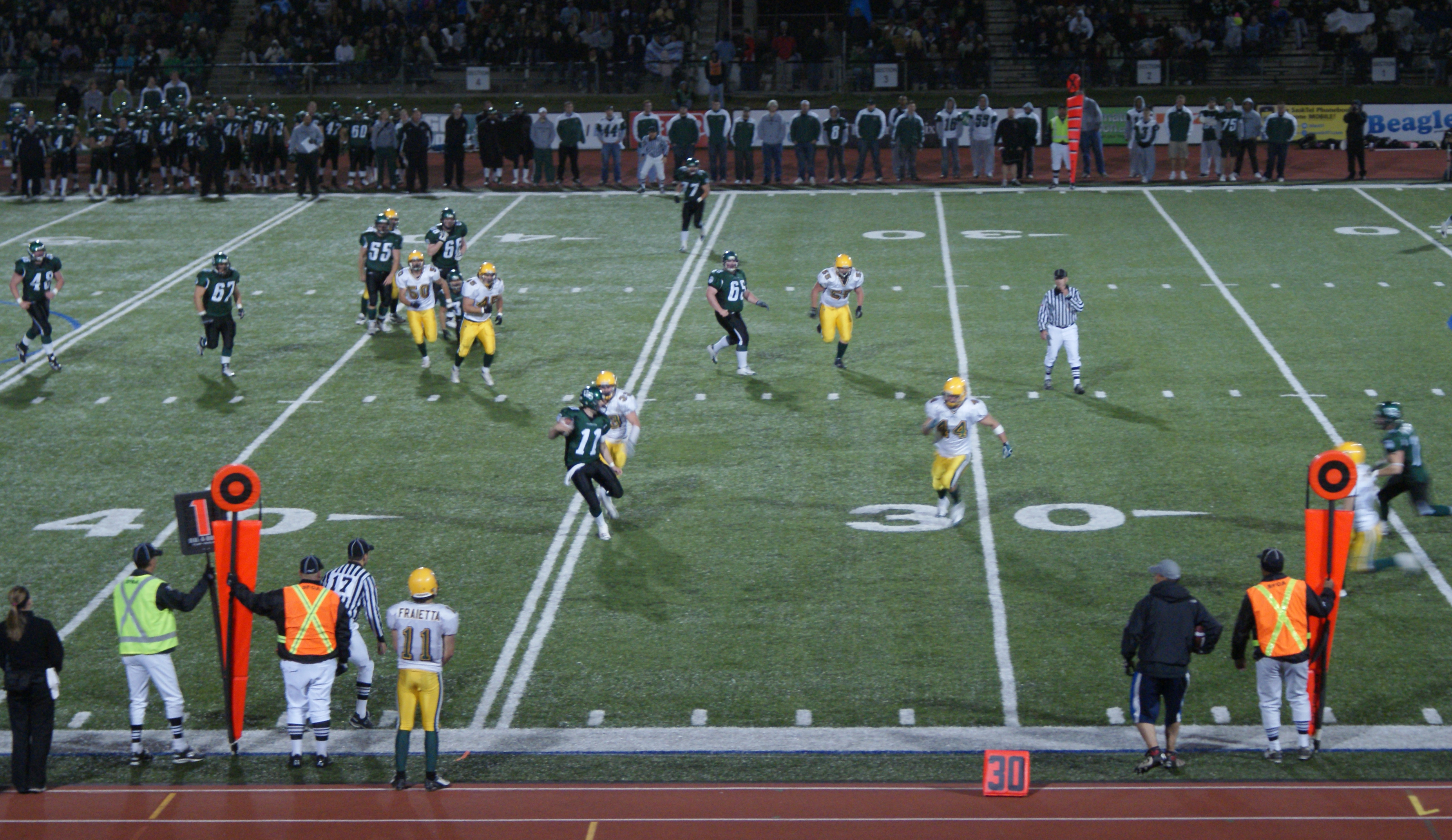 University of Saskatchewan Huskies 35-12 win over the University of Alberta Golden Bears Friday September 26, 2008 at Griffiths Stadium Saskatoon, Saskatchewan University of Saskatchewan Huskies